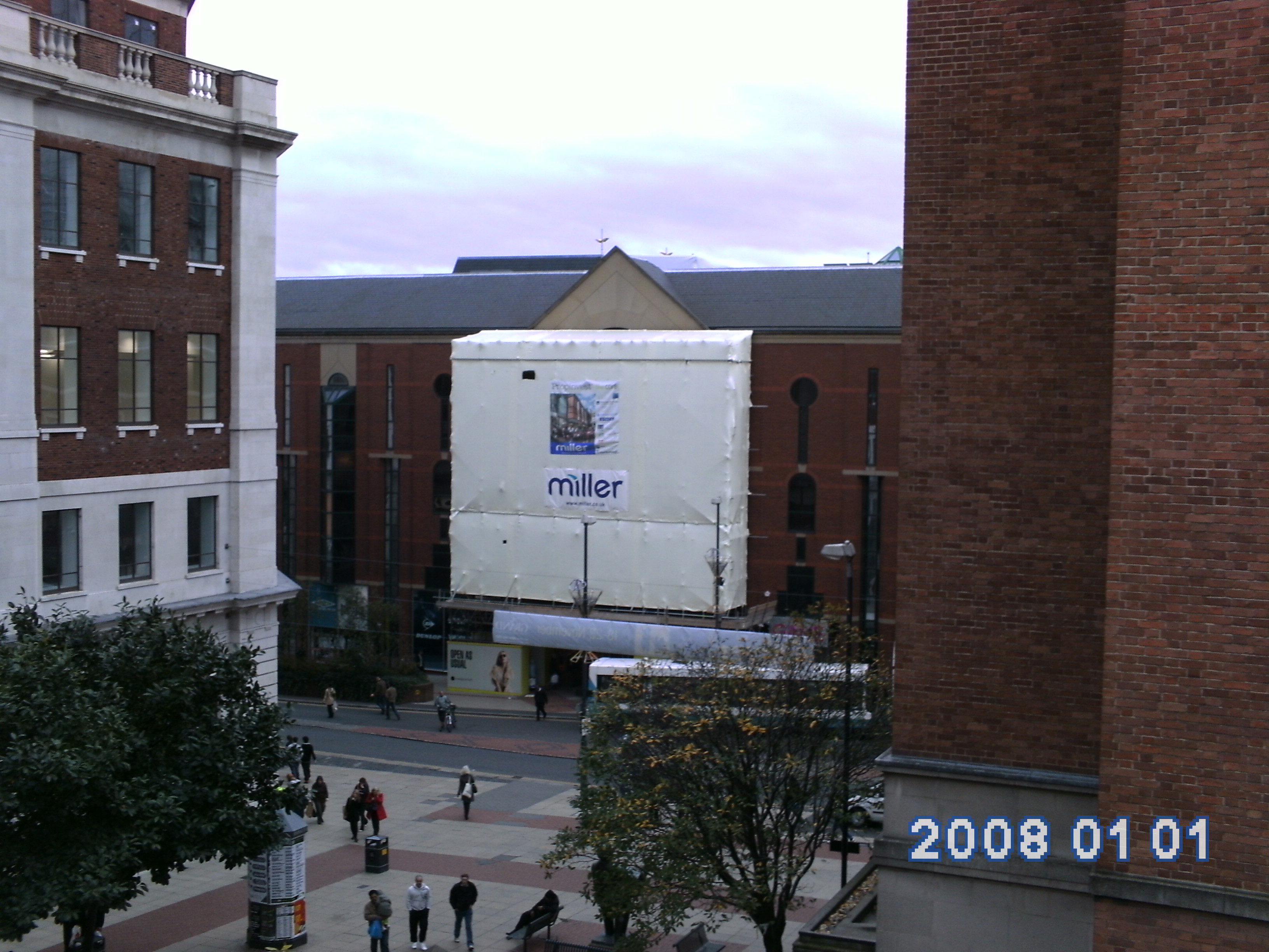 The Headrow Centre, Leeds taken from the St John's Centre car park